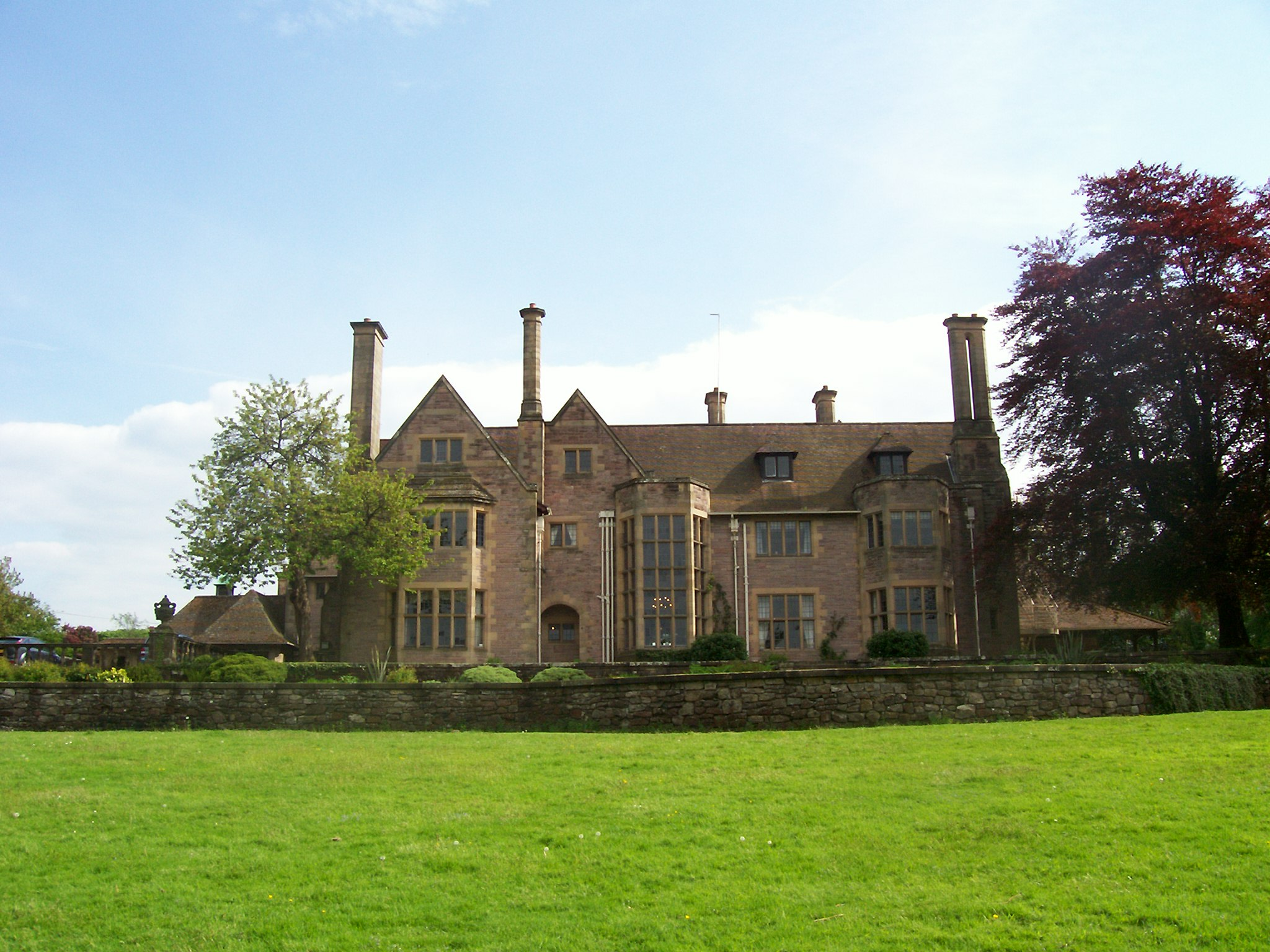 Alloa Gean House Conference Centre